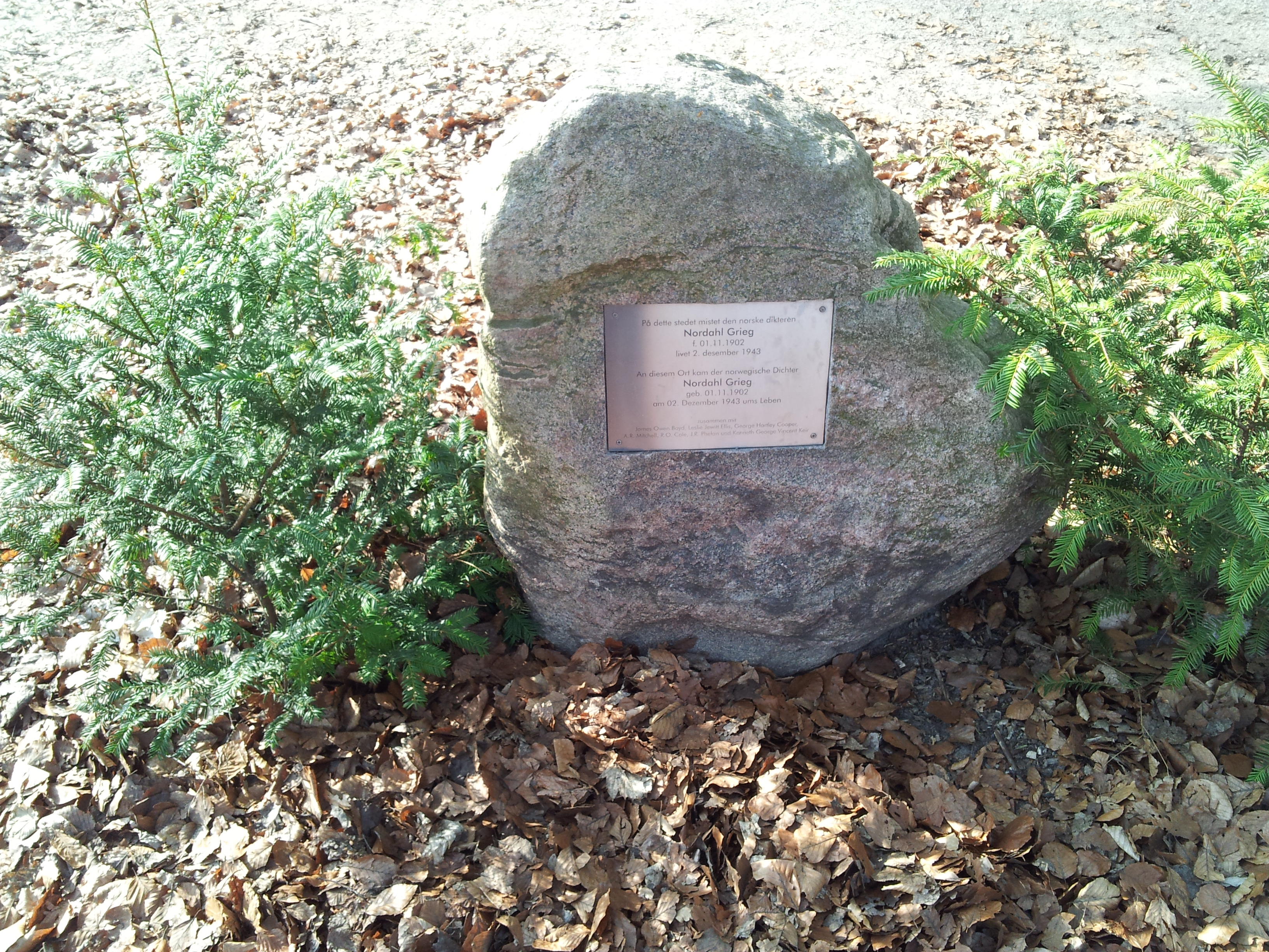 Nordahl Grieg Memorial in Kleinmachnow, Brandenburg, Germany. The memorial is erected next to the site where his plane crashed during a bombing mission south of Berlin.